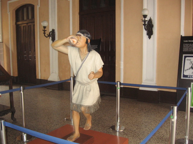 Statue of Chasqui runner, from the post office museum in Centro Lima, Peru.